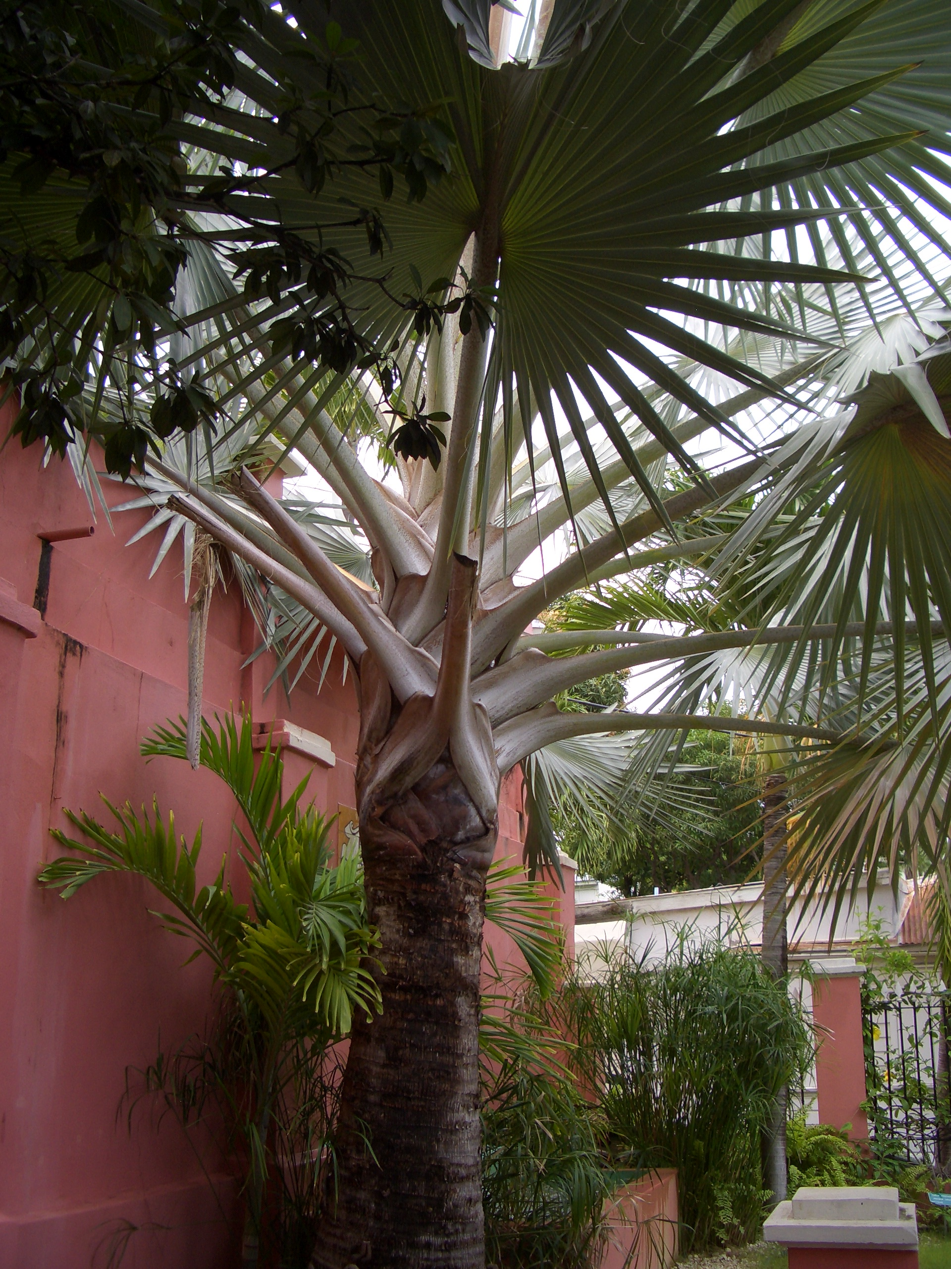 Bismarckia nobilis in Charlotte Amalie, St. Thomas, United States Virgin Islands.